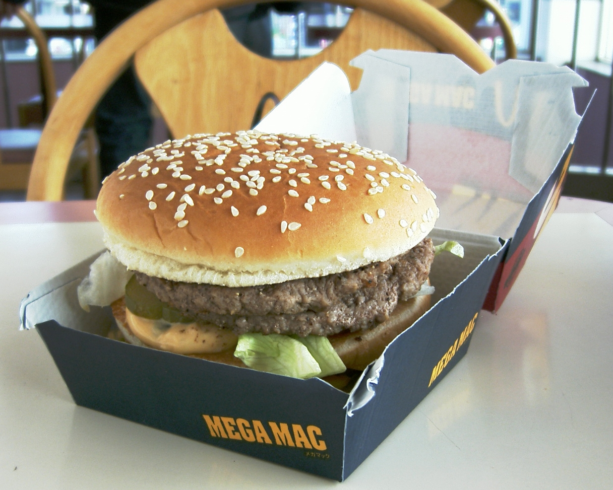 McDonald's_MEGA_MAC in Japan photography day, 2007/2/4 photography person kici